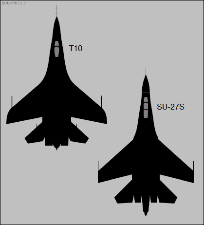 Plan-view silhouettes of the Sukhoi T-10 prototype and Sukhoi Su-27S